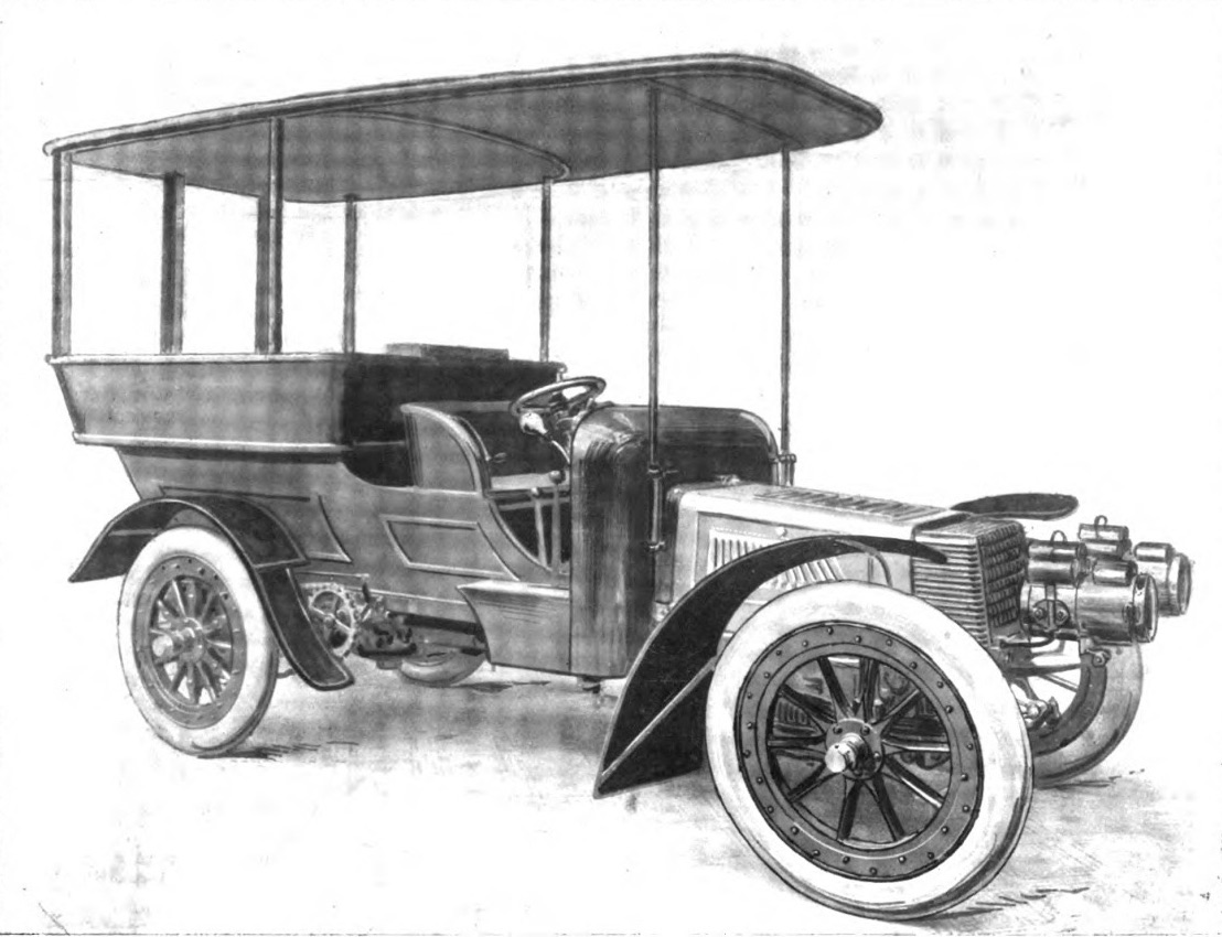 1902 Daimler 22 The King's new Daimler car